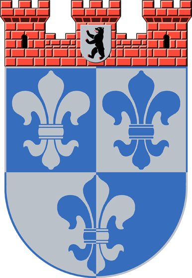 Coat of arms of Wilmersdorf, a former Borough of Berlin